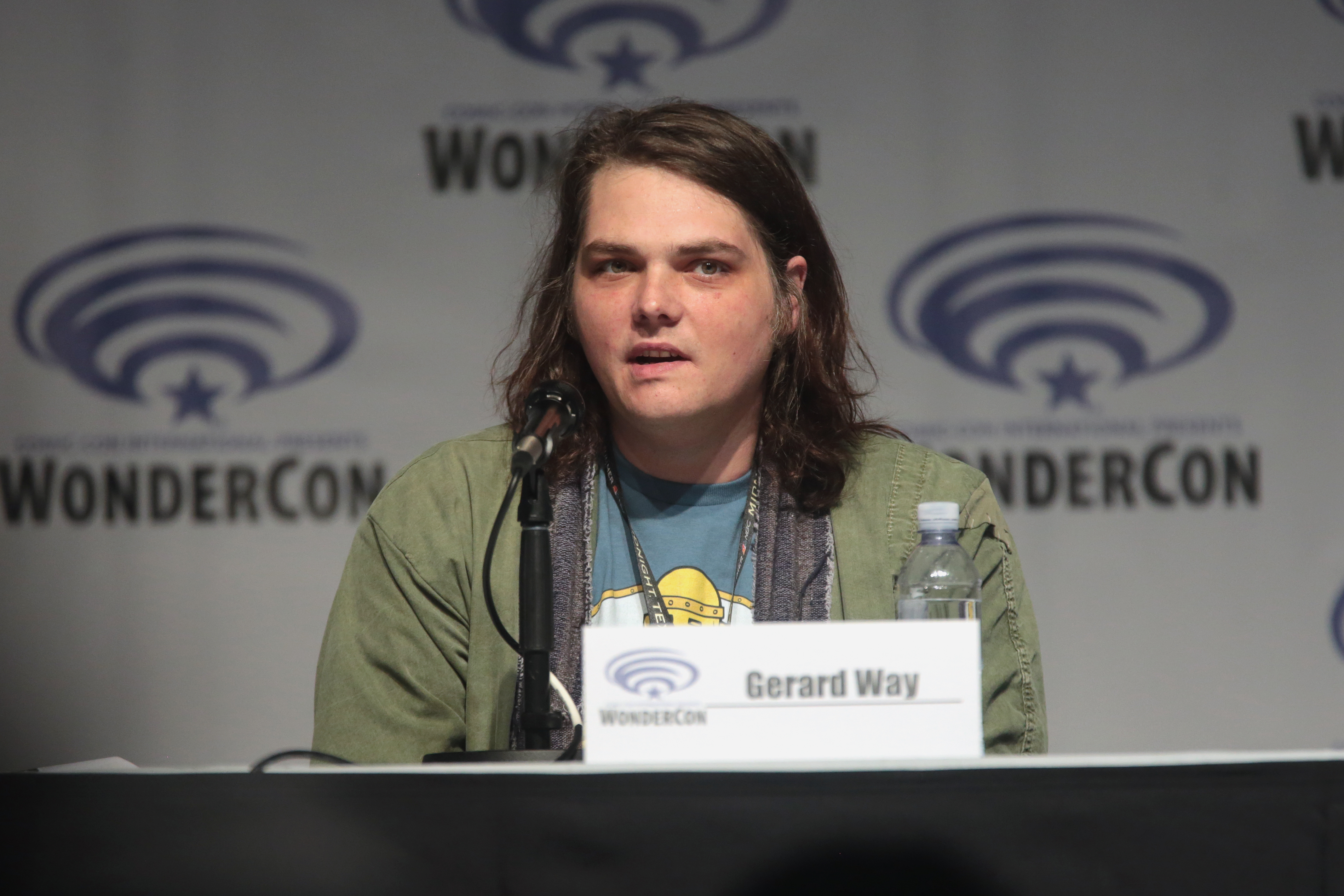 Gerard Way speaking at the 2017 WonderCon, for "DC's Young Animal", at the Anaheim Convention Center in Anaheim, California.